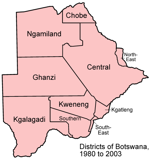 Map of the districts of Botswana as they were between 1980 and 2003. In 2003, the ISO recorded a change that Chome and Ngamiland had been combined into North-West, giving us the map we have today. Made by User:Golbez.